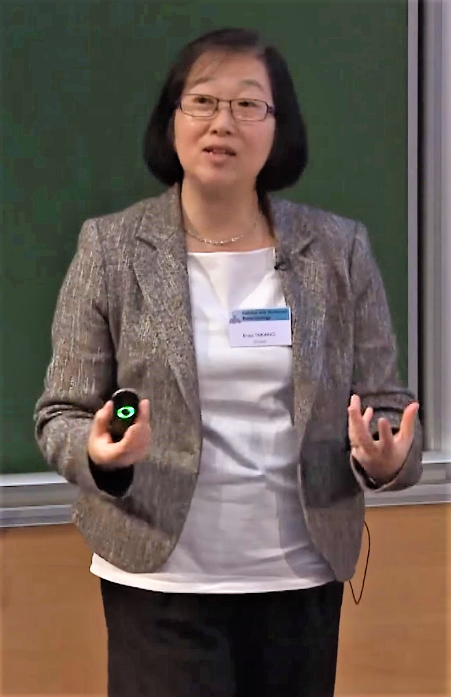 Eriko Takano, professor of synthetic biology and a director of the Synthetic Biology Research Centre for Fine and Speciality Chemicals (SYNBIOCHEM) at the University of Manchester, speaks on harnessing synthetic biology for the production of high-value chemicals for the Institut des Hautes Études Scientifiques (IHÉS)